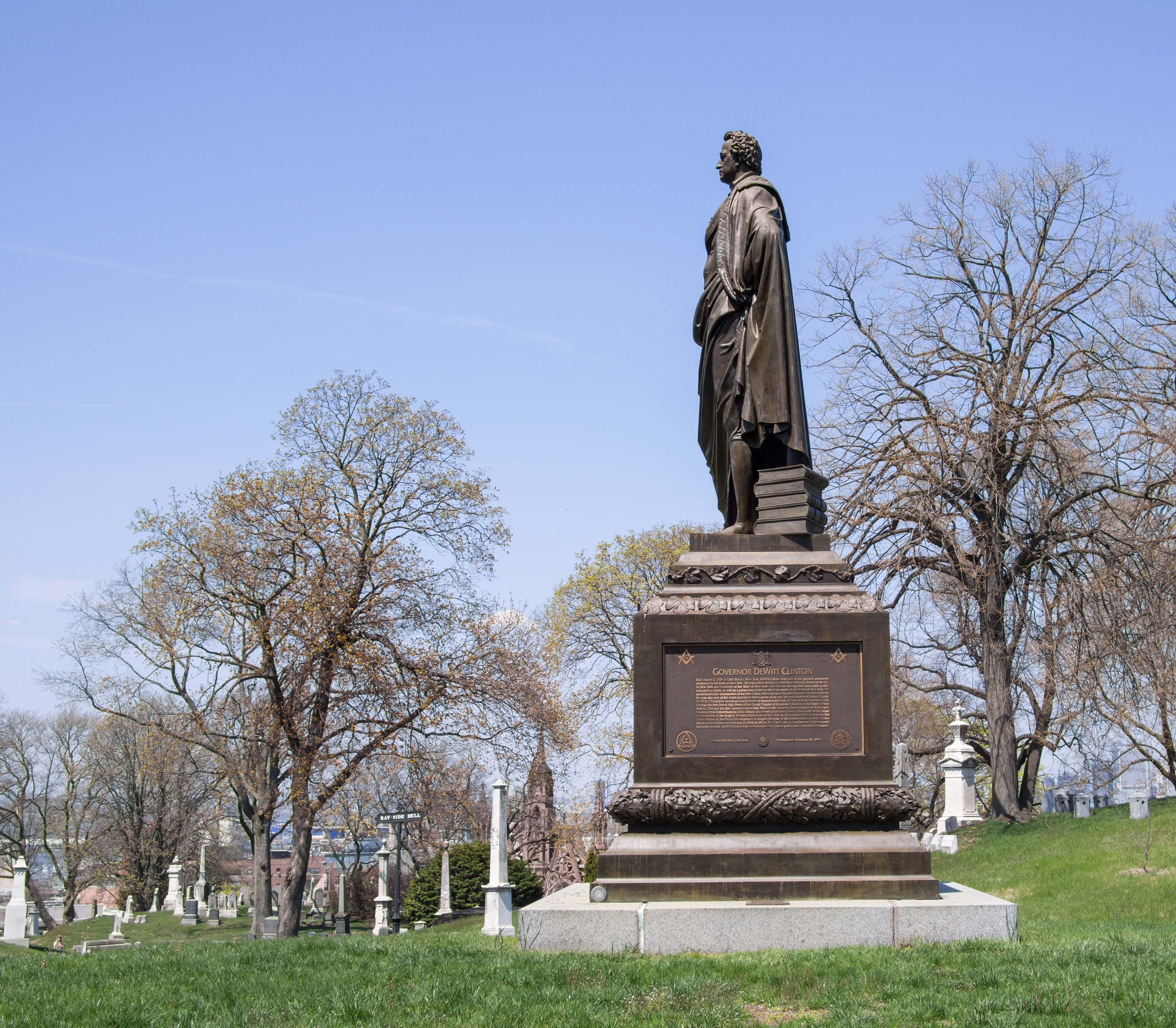 DeWitt Clinton monument/statue (side) in Brooklyn's Green-Wood Cemetery.